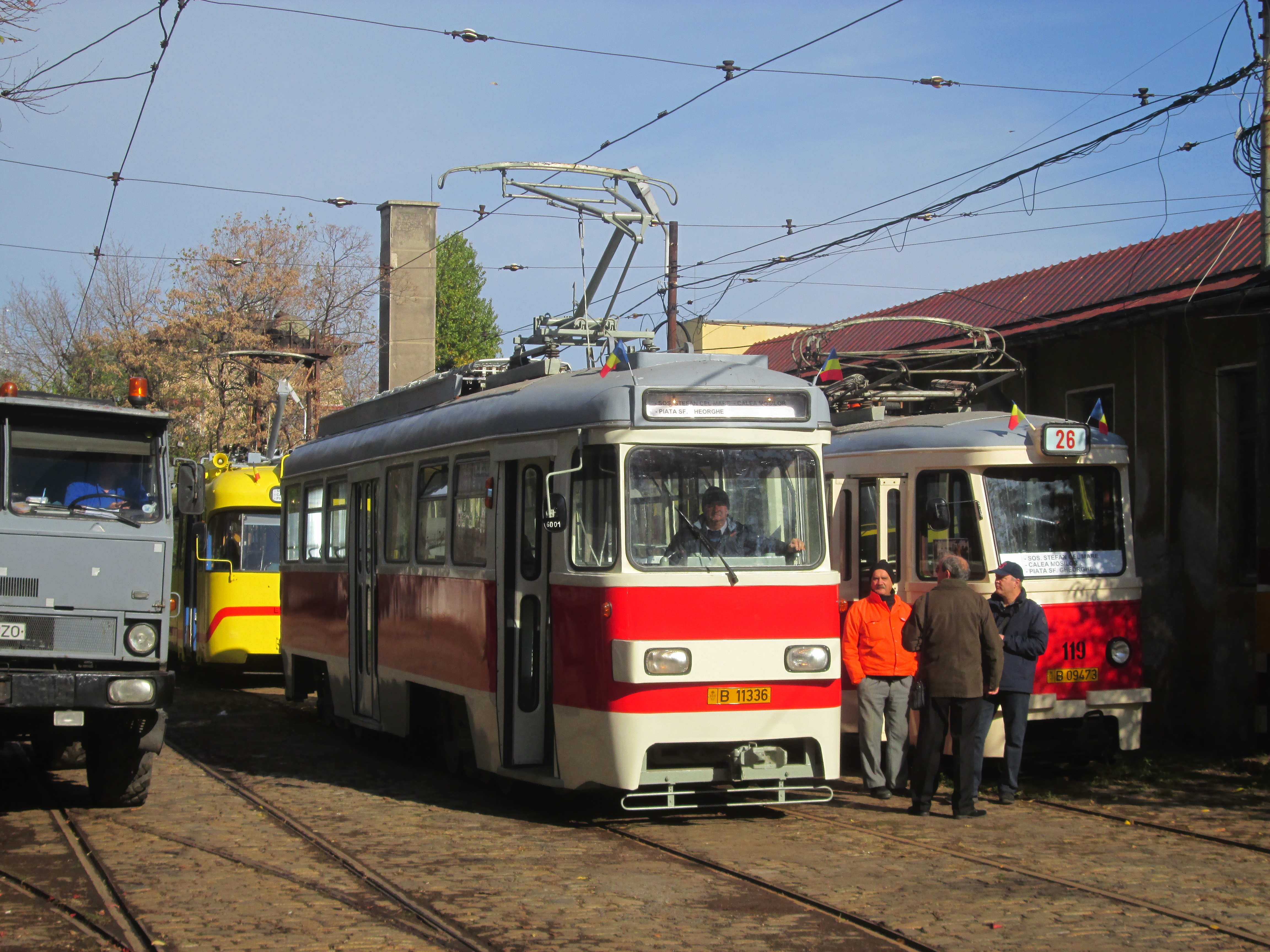 Tram number 6001 (type Electroputere/V3A, manufactured 1976, prototype) in Victoria tram depot. This is essentially a 1970s modernisation of the Electroputere V54 (1955-1959) using V3A equipment, retired 1995/1999-2000.